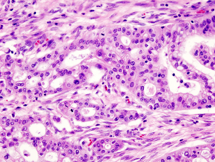 Histopathogic image of pancreatic adenocarcinoma arising in the pancreas head region. Another view of the same case presented as File:Pancreas_adenocarcinoma_(1)_Case_01.jpg. H & E stain.